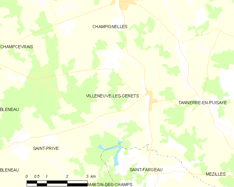 Map of French municipality Villeneuve-les-Genêts